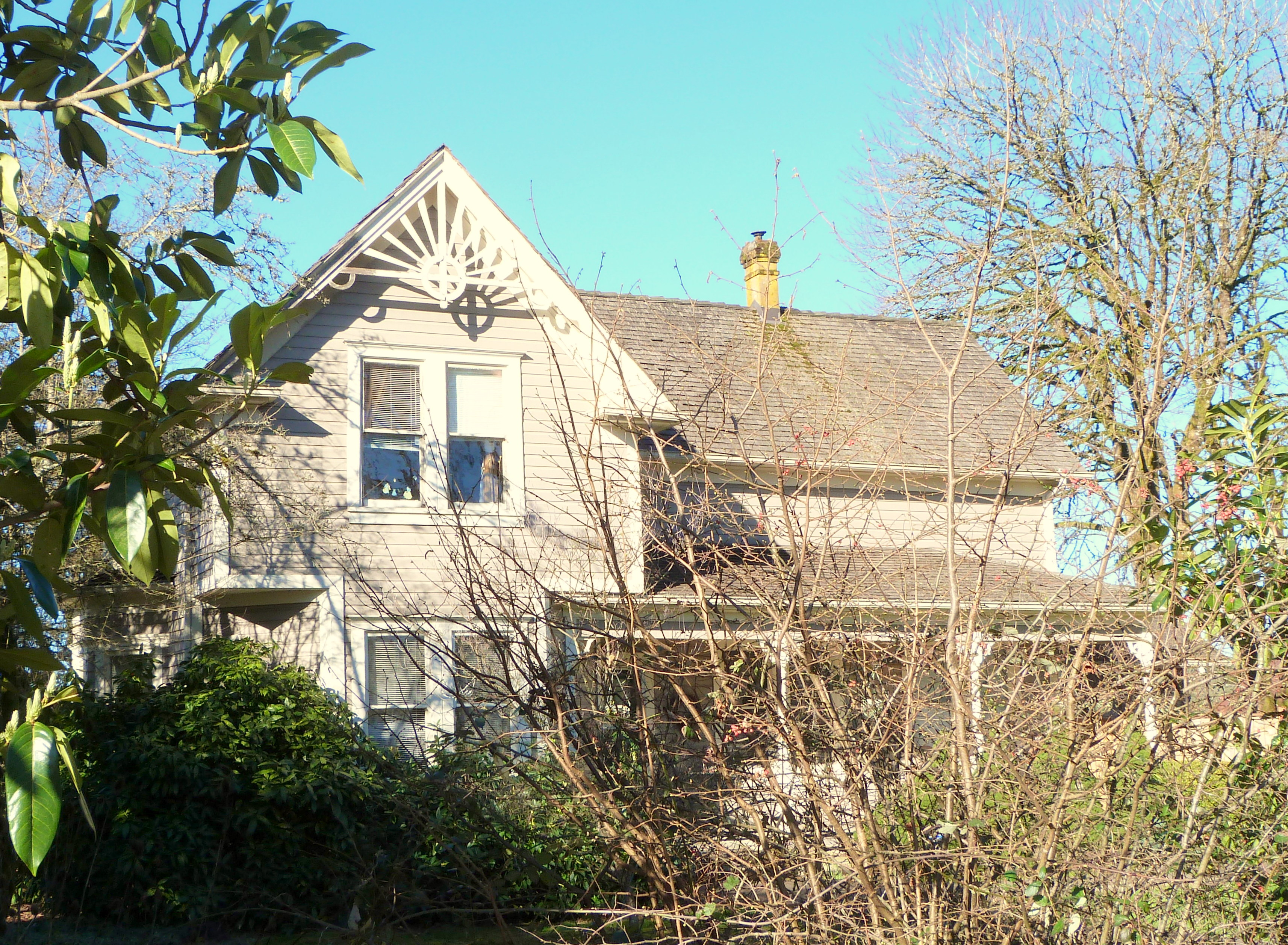 The historic Henry Heisen House (built ca. 1898), located at 27904 Northeast 174th Avenue in Heisson, Washington, United States, is listed on the US National Register of Historic Places.